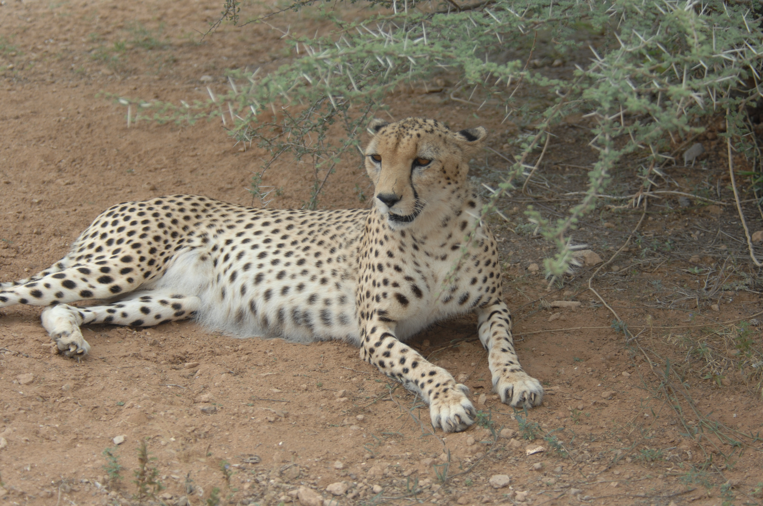 A cheetah rests in the shade at a refuge in Djibouti City, Djibouti, Jan 24, 2009. Military members deployed to Camp Lemonier have the opportunity to perform volunteer duties at the refuge. Camp Lemonier is the hub of the Combined Joint Task Force, Horn of Africa, providing humanitarian relief, security and anti-terrorism activities to the nations in the Horn of Africa.